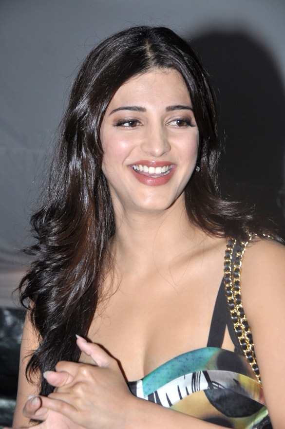 Shruti Haasan unveils the latest cover of Exhibit magazine